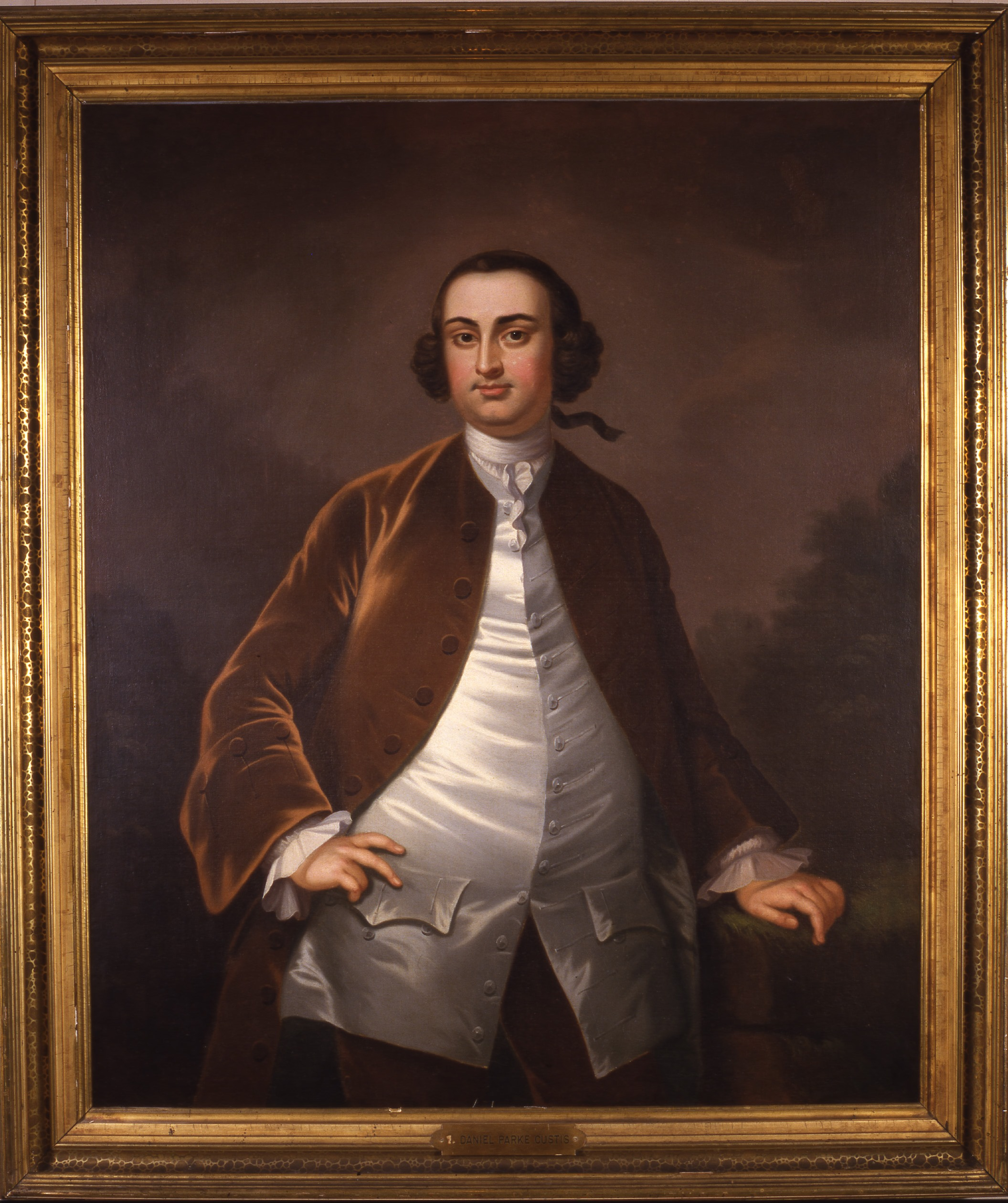 Dimensions: 50 x 40 in. (127 x 101.6 cm.)